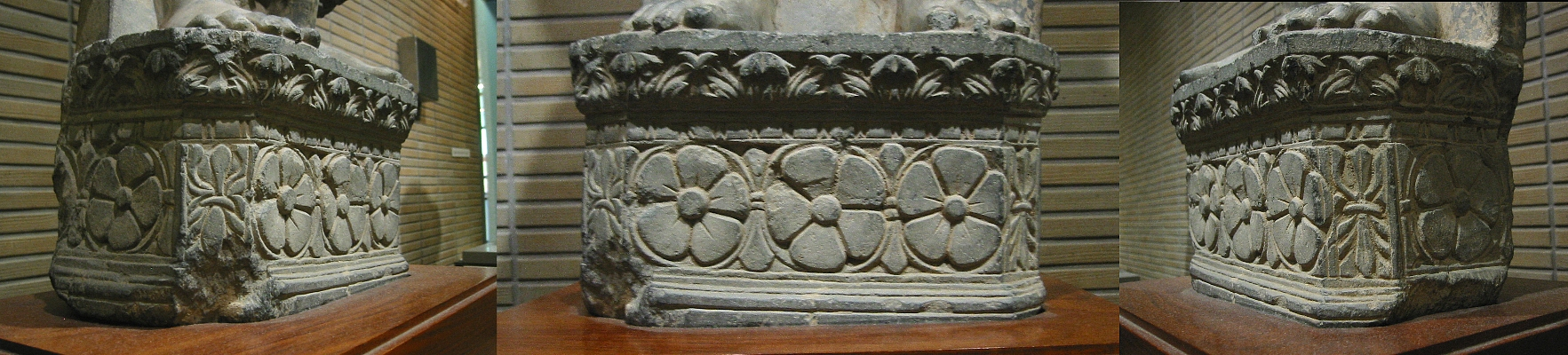 Standing Buddha base. Tokyo National Museum. Personal photograph.